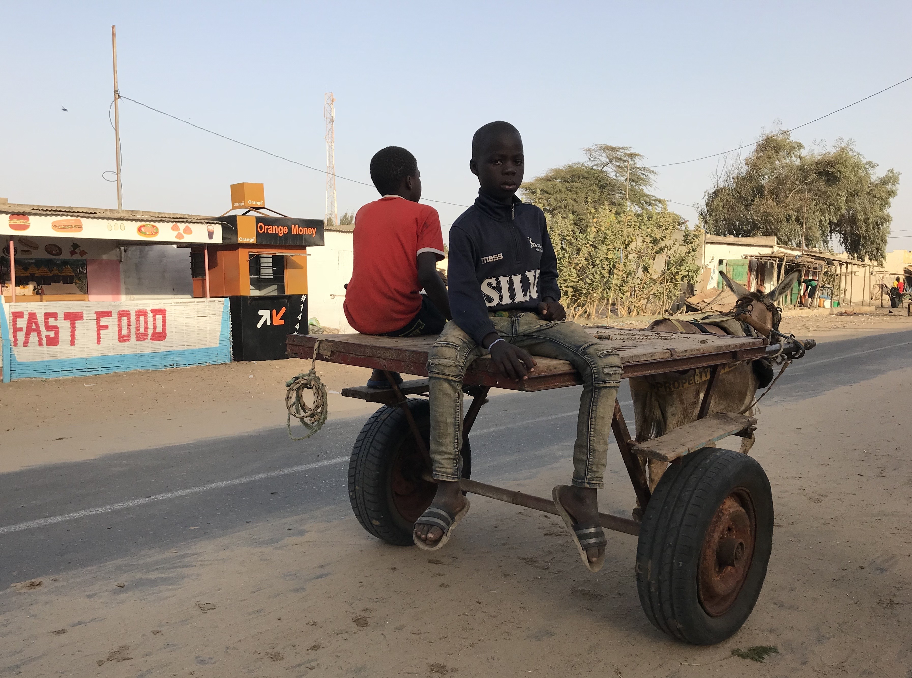 This is an image with the theme "Africa on the Move or Transport" from: Senegal